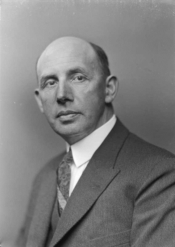 Aksel Gresvig, portrait in 1926 of a cyclist, a sports official and an industrial businessman.